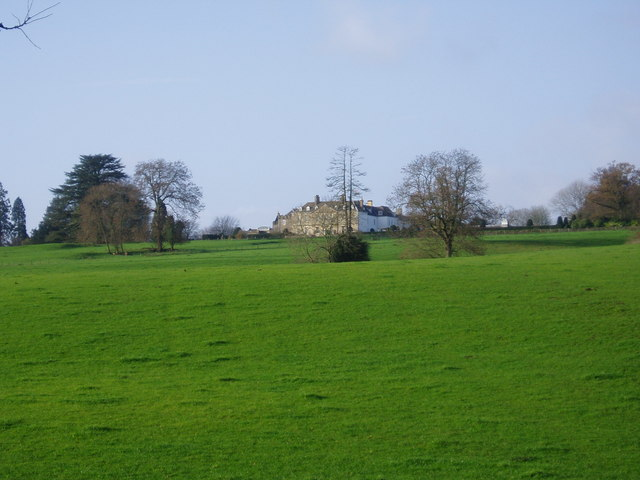 Itton Court, near Chepstow Set in vast parklands, Itton Court dates back to the 13th century, but was razed to the ground in the 18th century and a Queen Anne mansion built in its place.